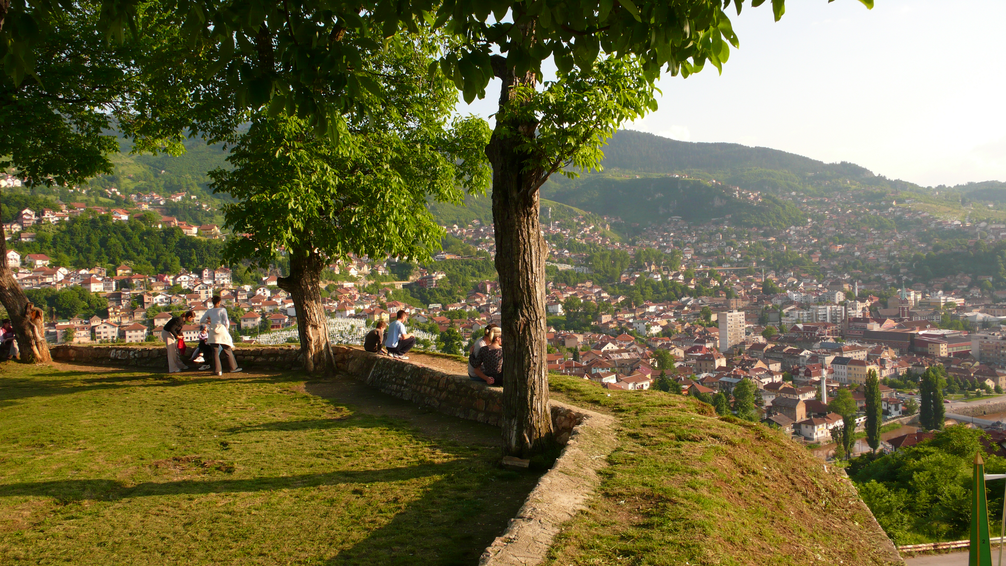 View of Sarajevo Taken during a few working days in Sarajevo. May 2007